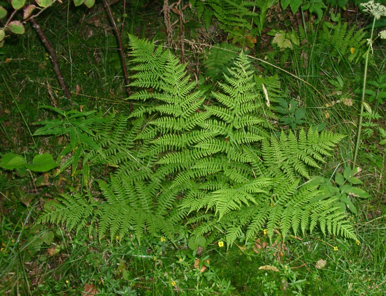 Athyrium filix-femina - august 2008 - Russia, Novgorodskaia oblast